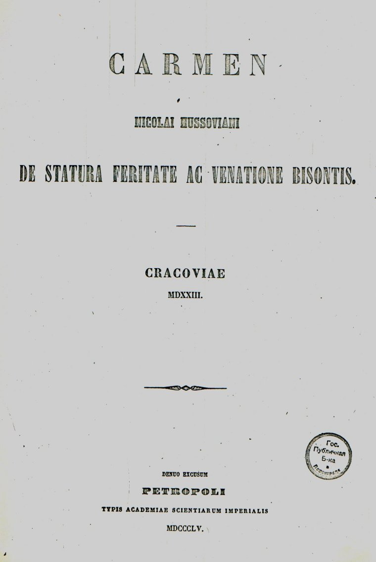 Mikalojus Husovianas' (Nicolaus Hussovianus) book The Song about Bison, Its Stature, Ferocity and Hunt (De statura feritate ac venatione bisontis carmen). It is the first fiction work about Lithuania